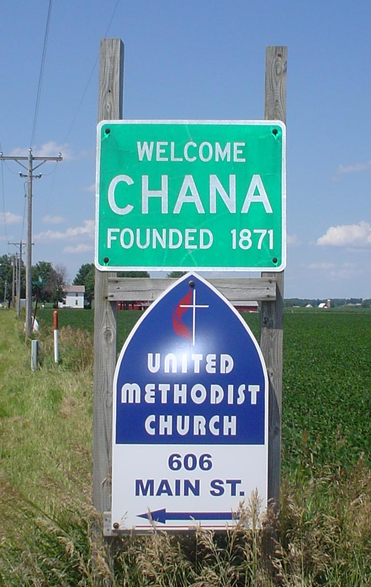 Sign along the road leading into the south side of Chana, Illinois, USA.